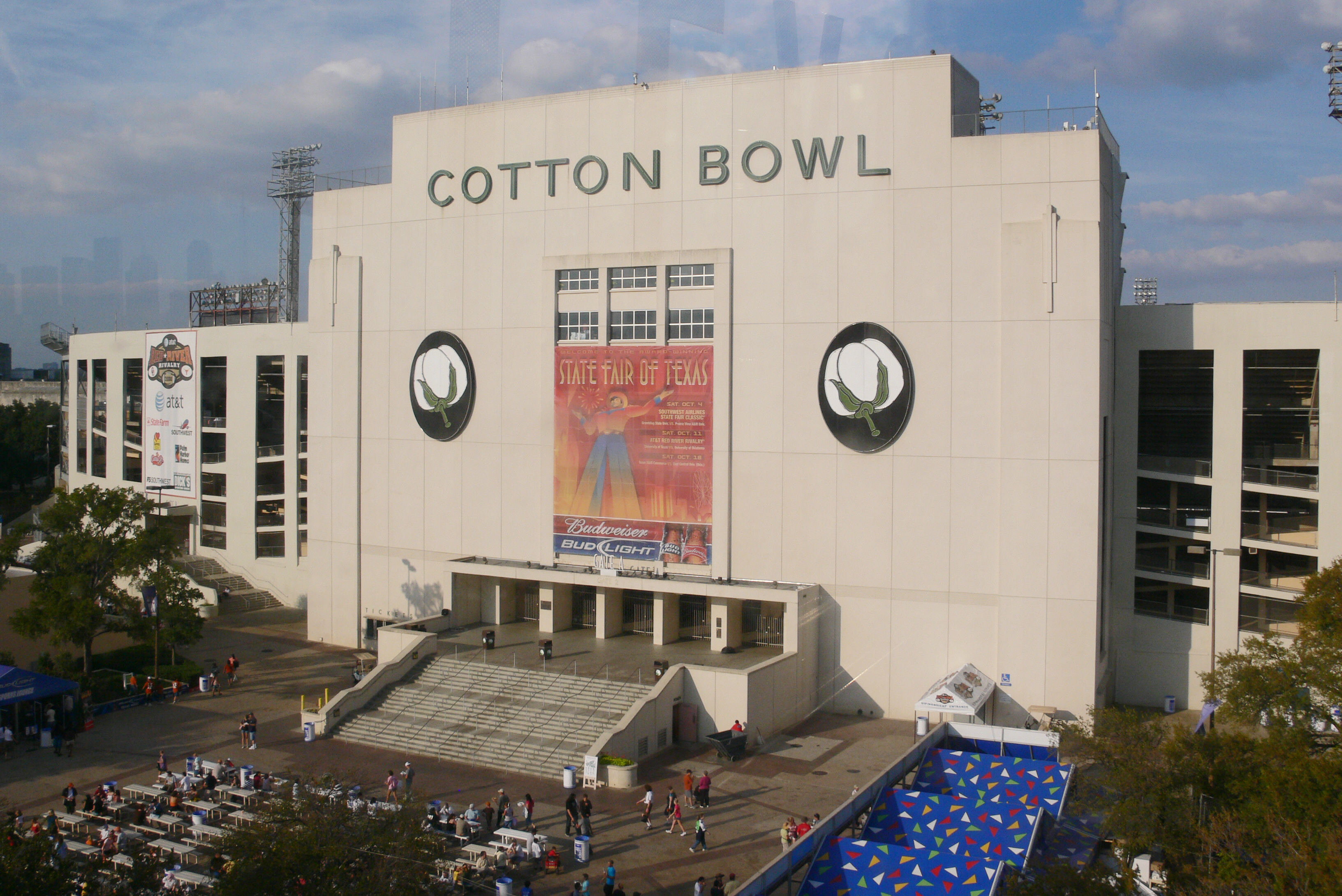 State Fair of Texas 2008, at Fair Park, Dallas, Texas Cotton Bowl as seen from the State Fair skyway